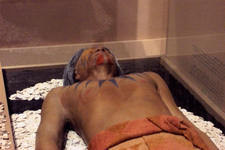 A diorama of the Bird Man found in Mound 72 at Cahokia, a ridge-top burial mound south of Monk's Mound. Archaeologists found the remains of a man in his 40s who was probably an important Cahokian ruler. The man was buried on a bed of more than 20,000 marine-shell disc beads arranged in the shape of a falcon.The "Birdman"